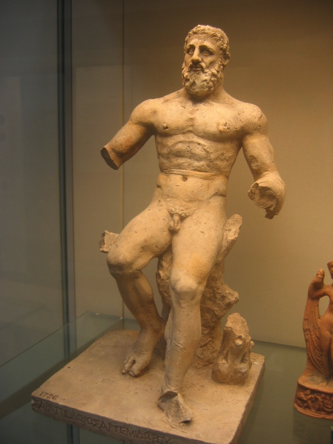 British Museum, London: statue d'Hercule, IIe - IIIe siècles. Limestone; found at Ninevah. BM link [1]